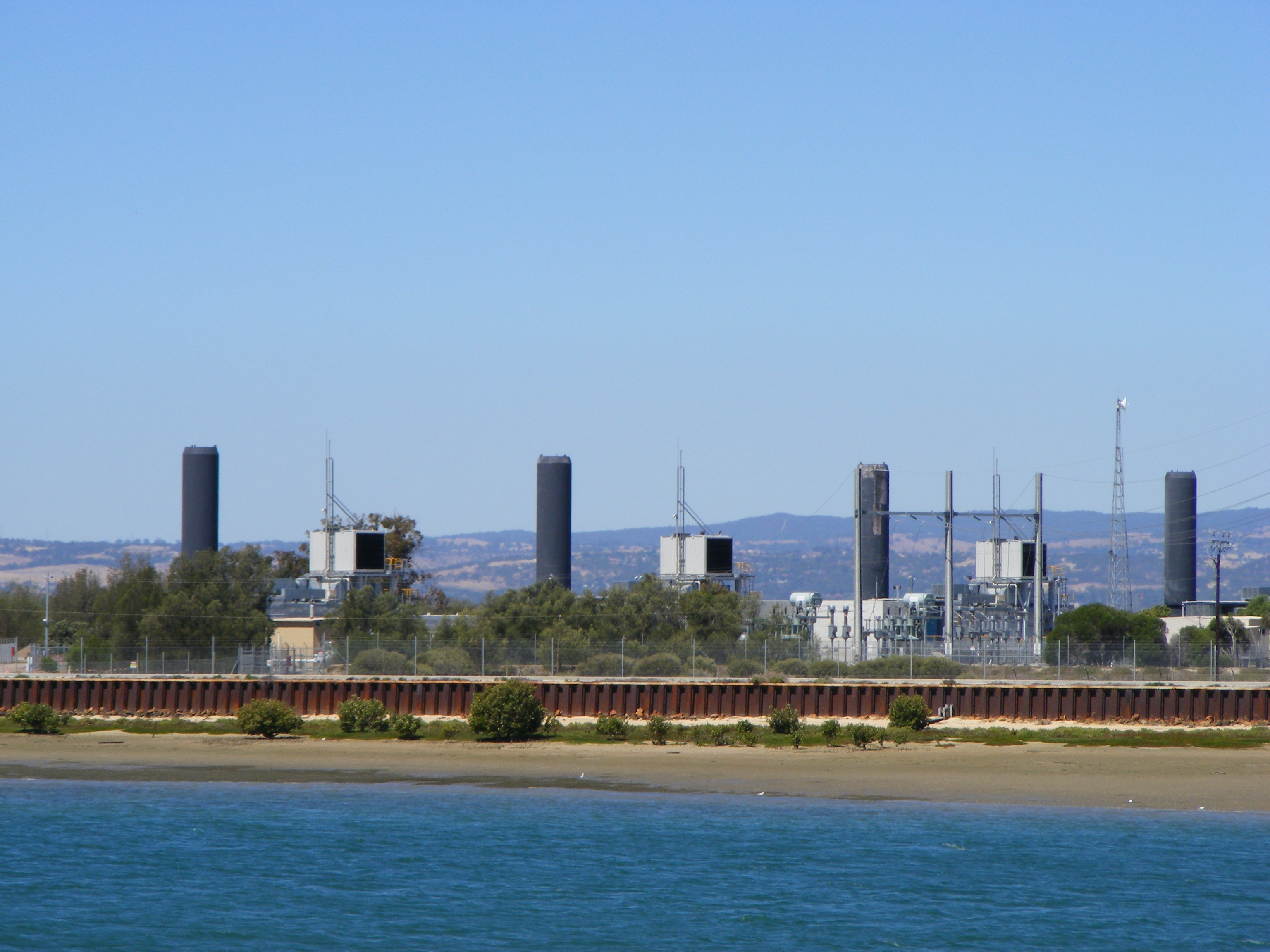 The 95MW Quarantine Power Station on Torrens Island, Adelaide, South Australia with the Port River in the foreground. This station lies between the old quarantine station and the larger Torrens Island Power Station.